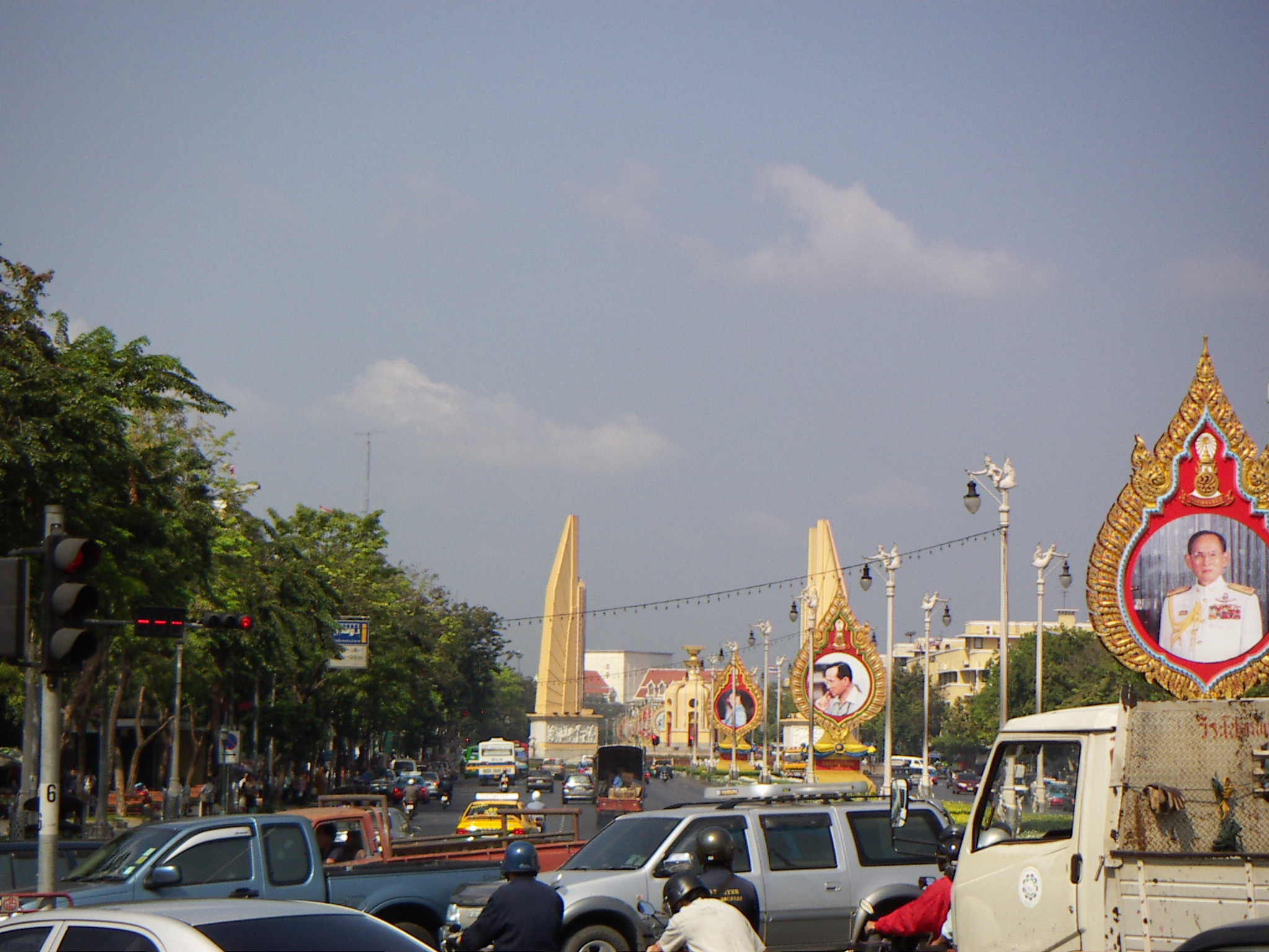 Traffic on Thanon Ratchadamnoen Klang (Middle Ratchadamnoen Avenue) with the Democracy Monument